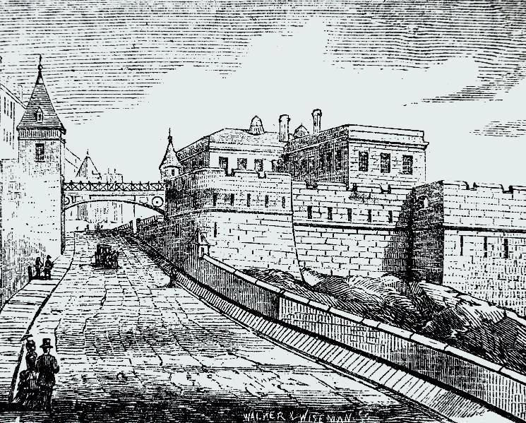 Print: QUEBEC:-LORD DUFFERIN'S PLANS FOR THE PRESERVATION OF ITS HISTORICAL MONUMENTS. MOUNTAIN HILL.-Iron Bridge. John Henry Walker (1831-1899), 1876. Ink on newsprint - Photolithography, 39.5 x 28.4 cm